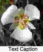 Modified Image:Sego_lily_cm.jpg for illustration of compression artifacts. Loss of edge clarity and tone "fuzziness" in JPG compression.